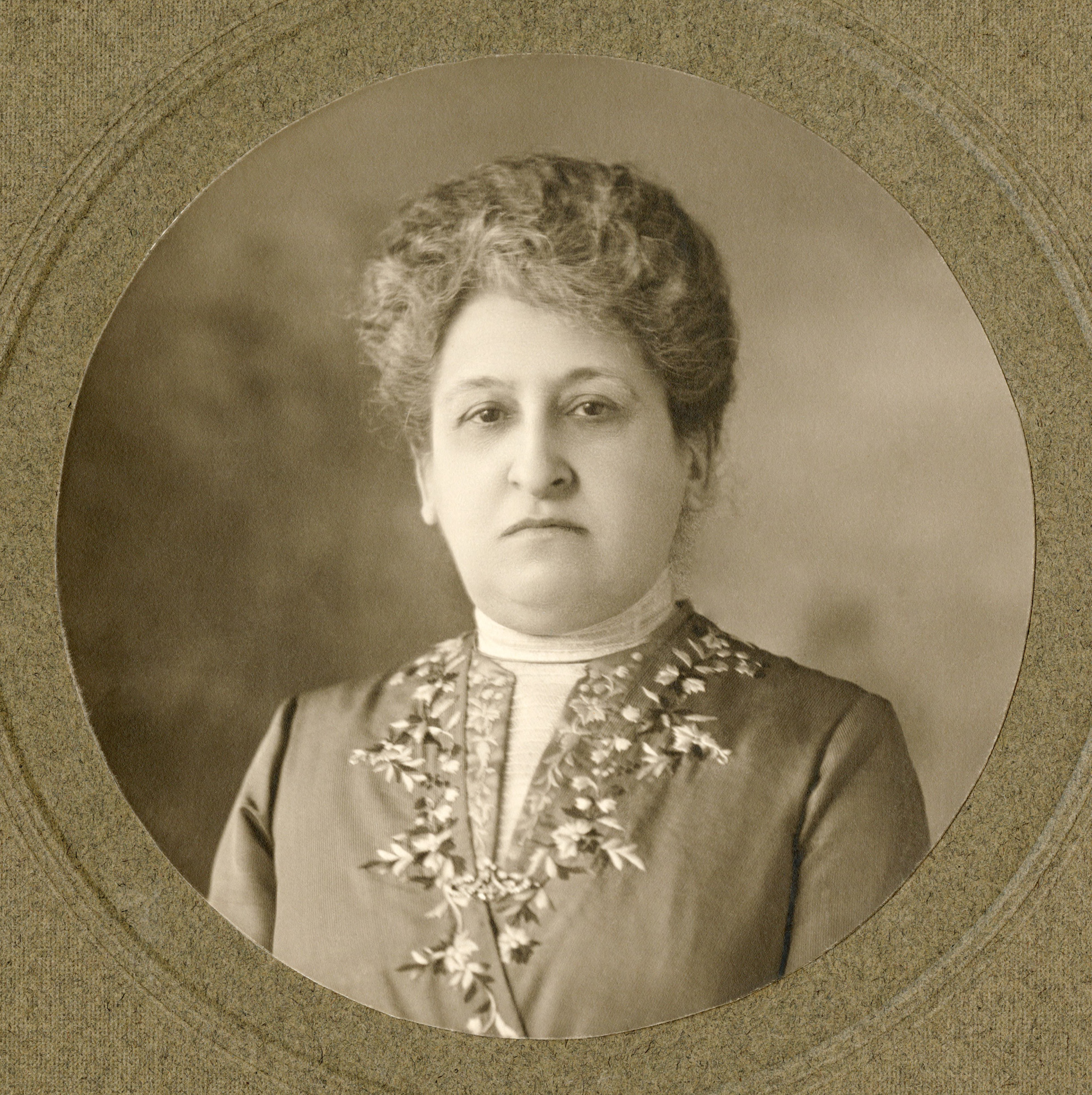 Dr. Aletta Jacobs, Dutch suffragette, first female Dutch university graduate and first Dutch female physician, and birth control advocate.